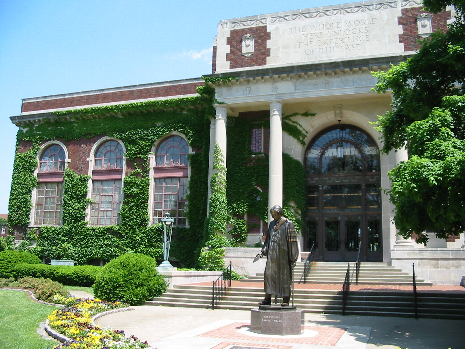 Personal photo of Pogue Library and statue of Rainey T. Wells taken from the quad, 5/8/2004.